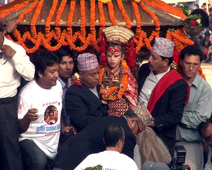 Kumari living goddess of Nepal.